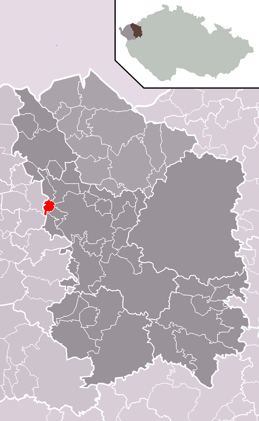 Location of Mírová municipality within Karlovy Vary District and administrative area of Karlovy Vary as a Municipality with Extended Competence.